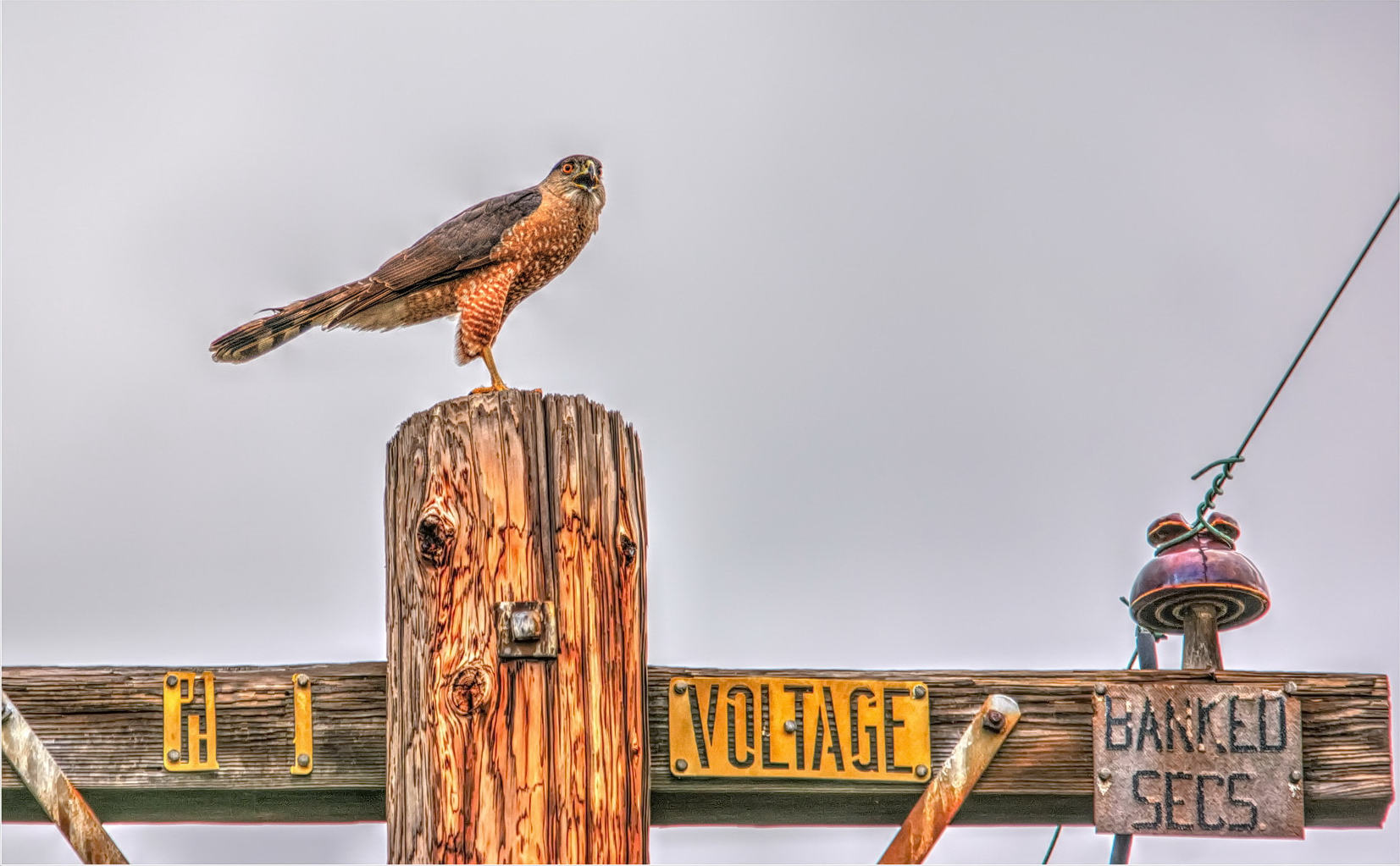 500px provided description: This guy visits my backyard often, looking for lunch. He's a loud one! I tried to get as much brightness as possible without weird things happening. [#bird ,#hawk ,#high voltage ,#avian ,#power pole ,#cooper's hawk ,#coopers ,#city hawk ,#urban hawk]